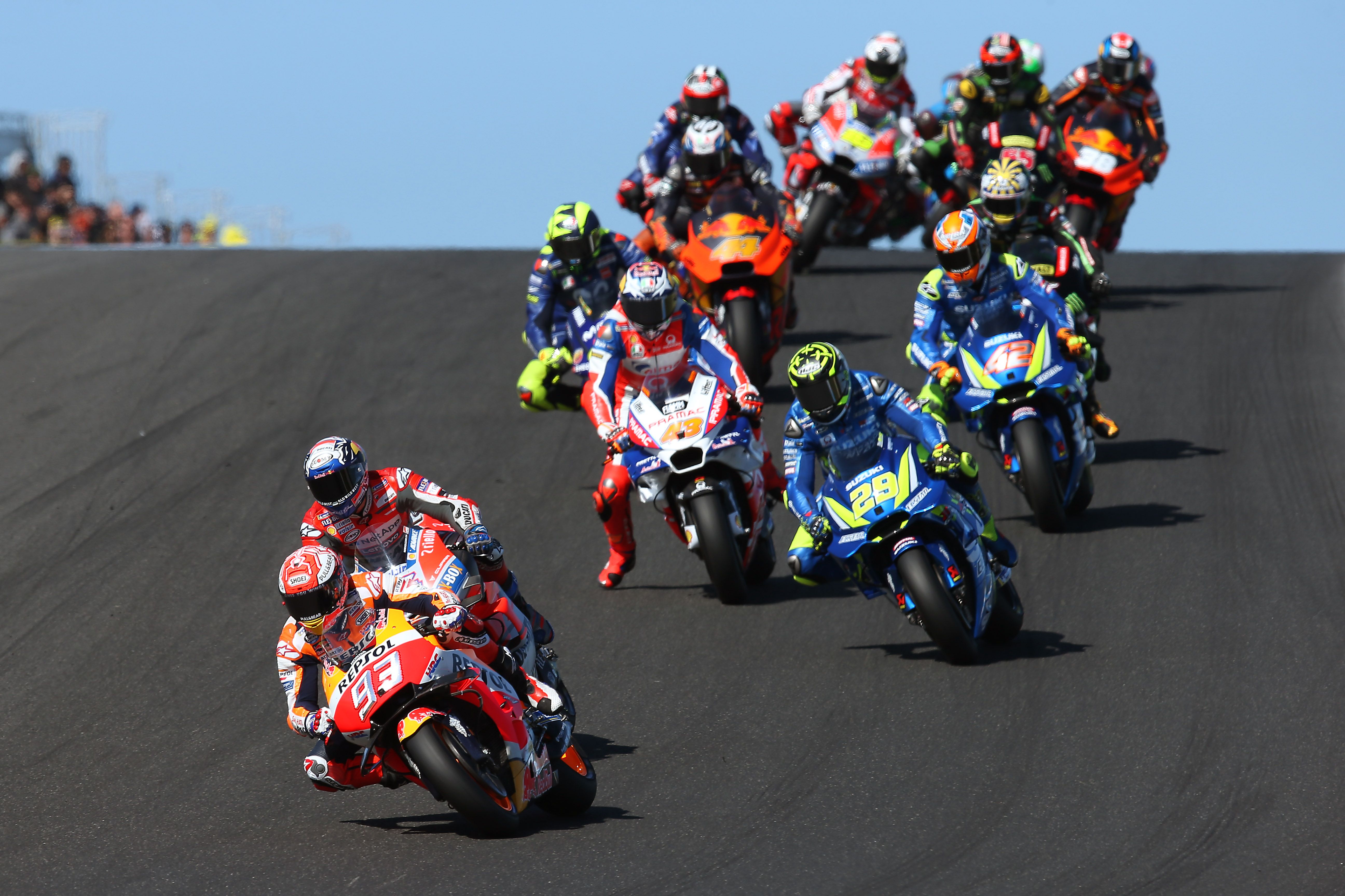 Marc Márquez, riding his Repsol Honda, leading the pack on the opening lap of the 2018 Australian Grand Prix.